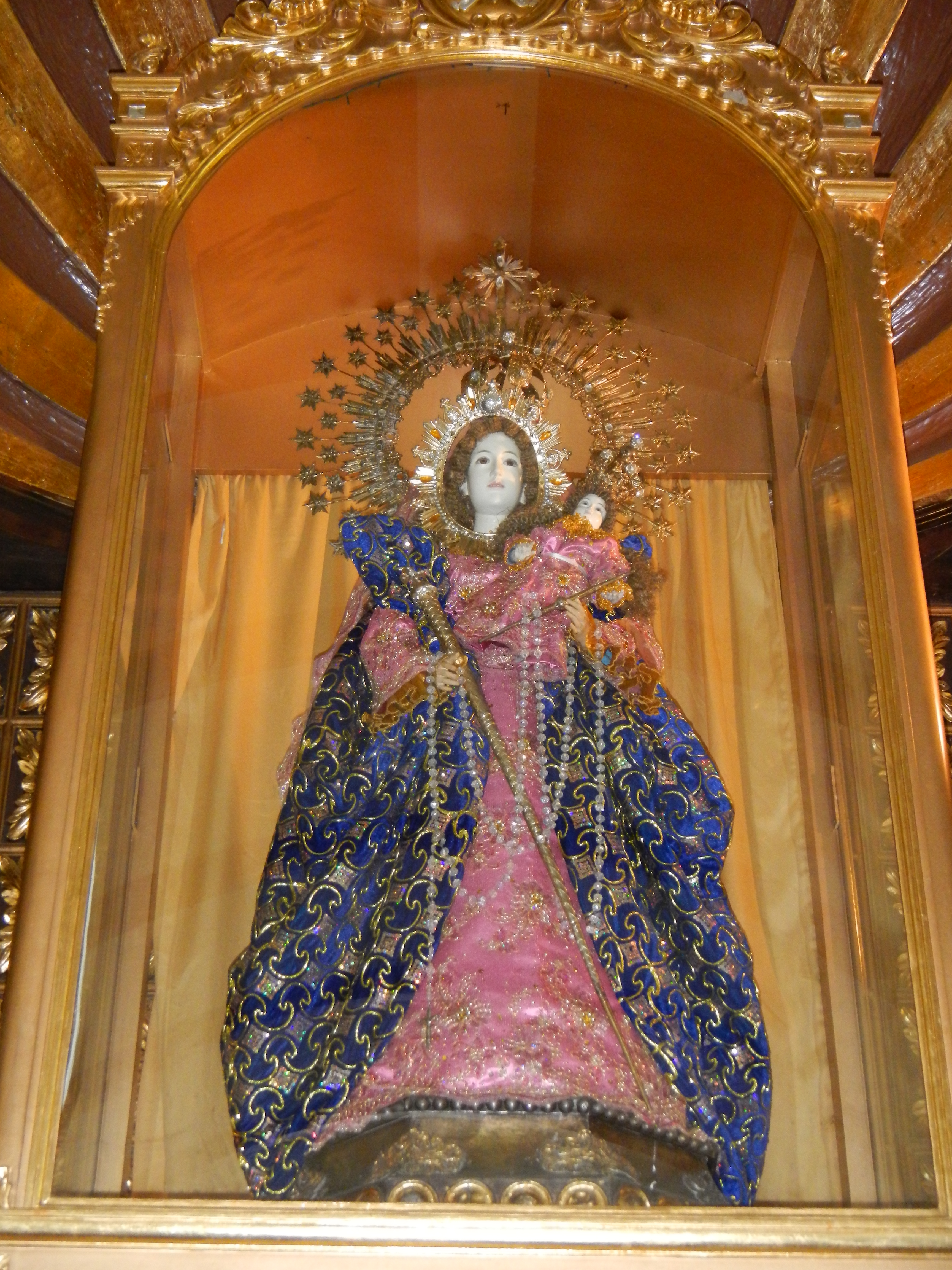 1849 Nuestra Señora de las Saleras Parish Church, "Our Lady of The Vessel of Salt", Gen Luna St. Poblacion Centro , 3111 Aliaga, Nueva Ecija, Parish Priest, Fr. Danilo C. Cipriano, Titular: Nuestra Señora de las Saleras, April 26[1][2] [3]Aliaga, Nueva Ecija